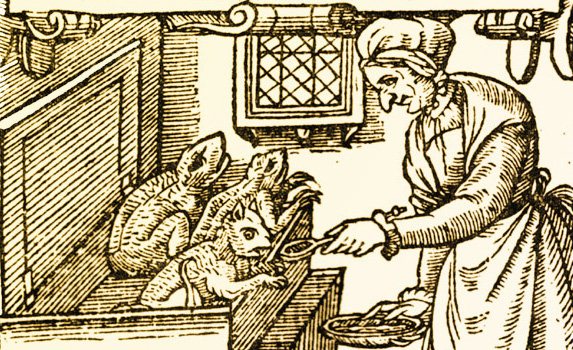 A witch feeding demonic imps.